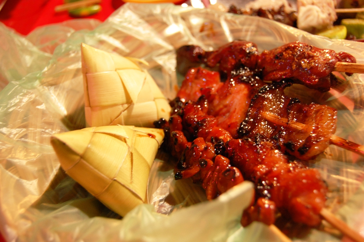 Puso and BBQ Feast - Chicken Skin, Pork Belly, Chicken Liver and Intestines